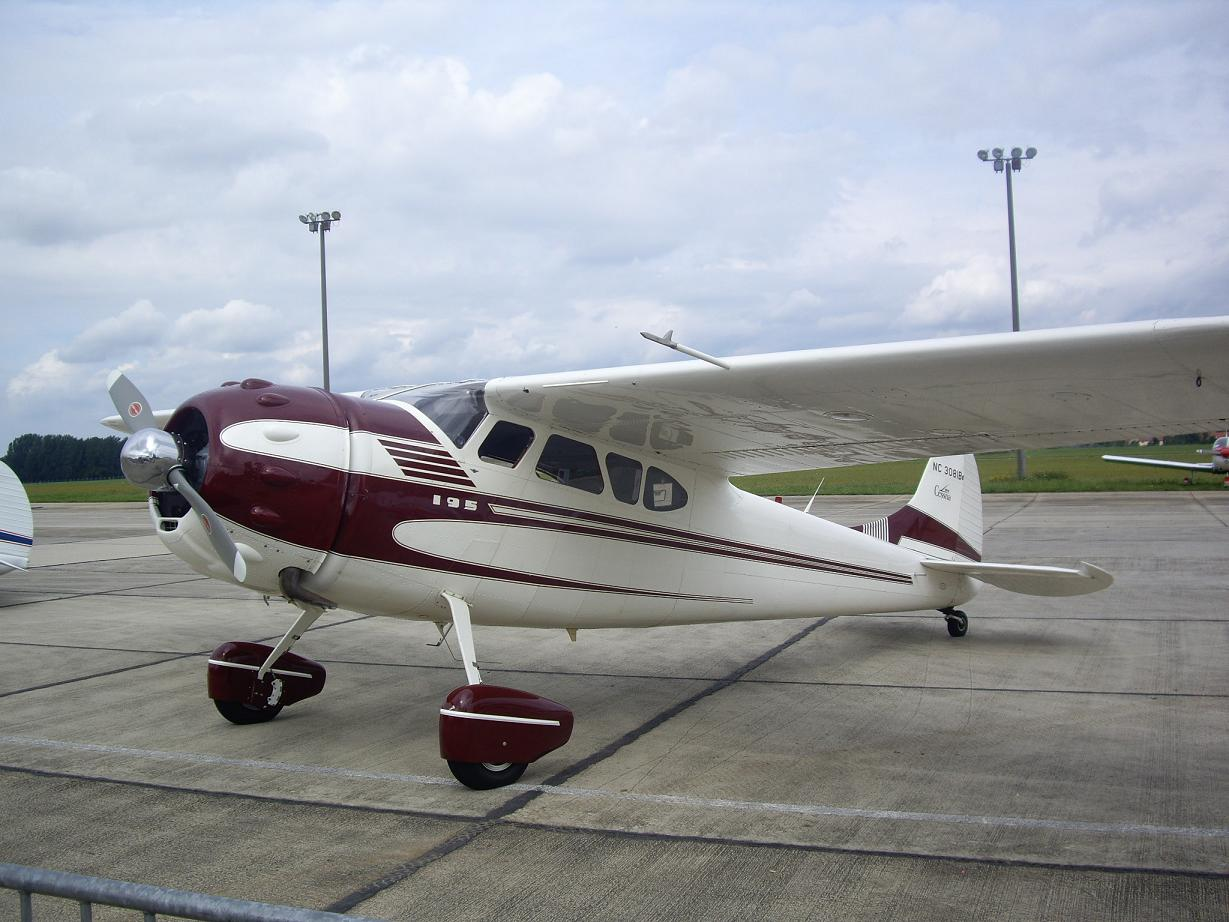 Cessna 195 (NC 3081B) at „Flugtage Bautzen“ (Germany)